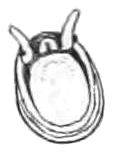 Drawing of a foot of live Cremnoconchus syhadrensis